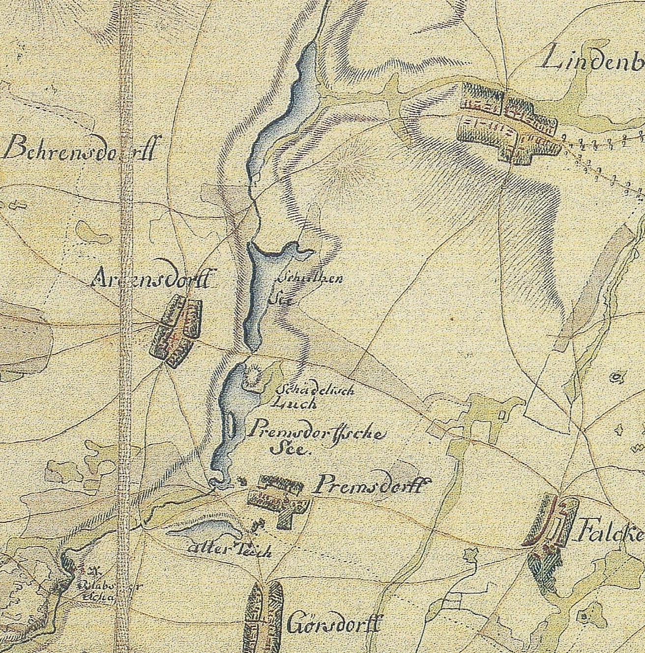 Extract of a Schmettau map from 1767/1787 with a part of the today’s District Oder-Spree, Brandenburg, Germany. The map shows the villages Lindenberg, Falkenberg and Görsdorf with its part Premsdorf (today parts of the municipality Tauche) as well as Ahrensdorf (part of the municipality Rietz-Neuendorf). It also shows the central part of the Blabbergraben with (from north to south) Lindenberger lake, Ahrensdorfer lake (named here as Schultzen See), Premsdorfer lake and Blabberschäferei (former sheep).